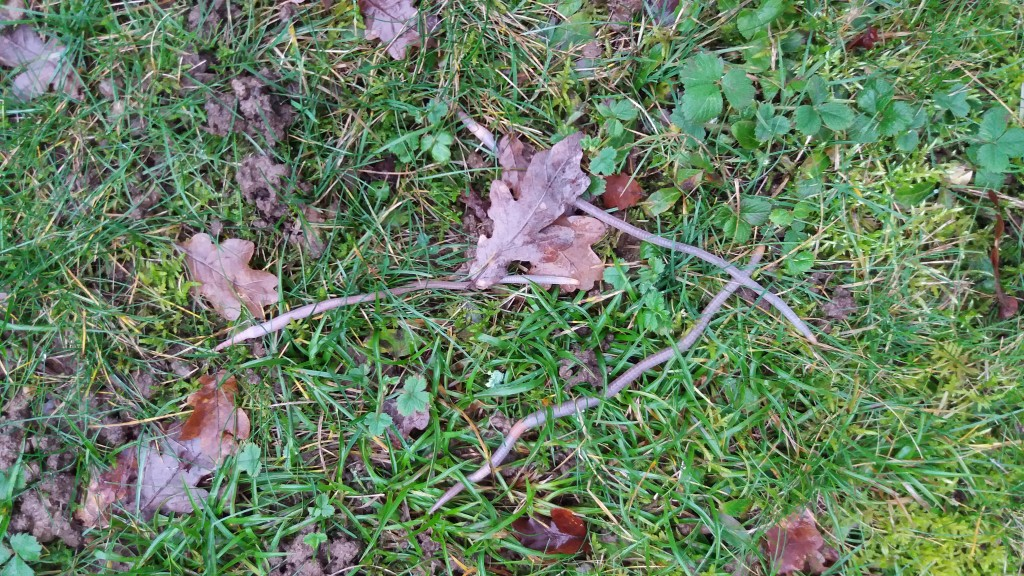 Earthworms fled to the surface after constant rain